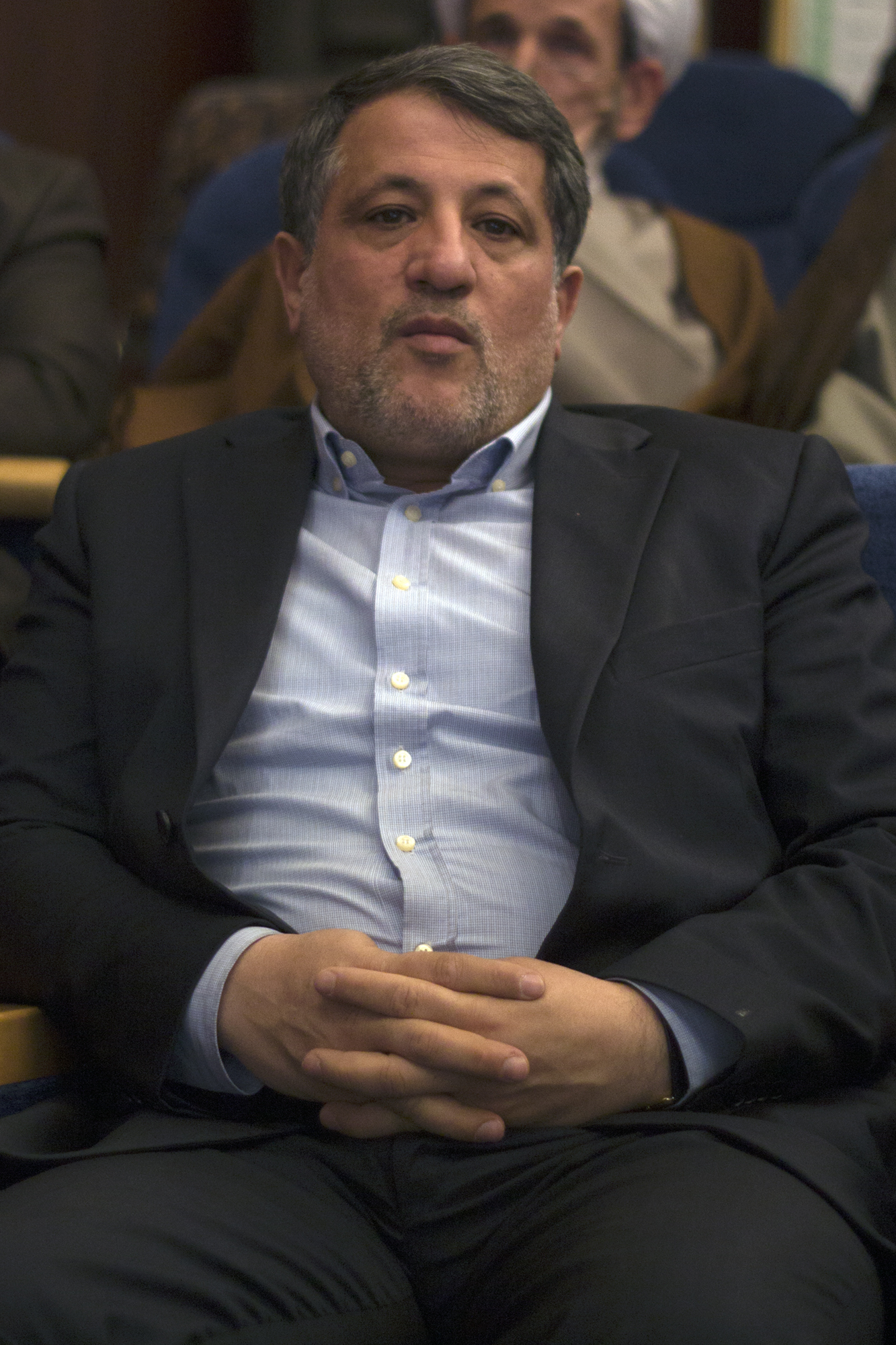 Mohsen Hashemi Rafsanjani is an Iranian politician and academic. He is the deputy director of Iran's Islamic Azad University and was chairman and CEO of Tehran Metro for 13 years. He was the main reformist member candidate for the fourth period of the Tehran city council as Tehran Mayor, but lost to Mohammad Bagher Ghalibaf.